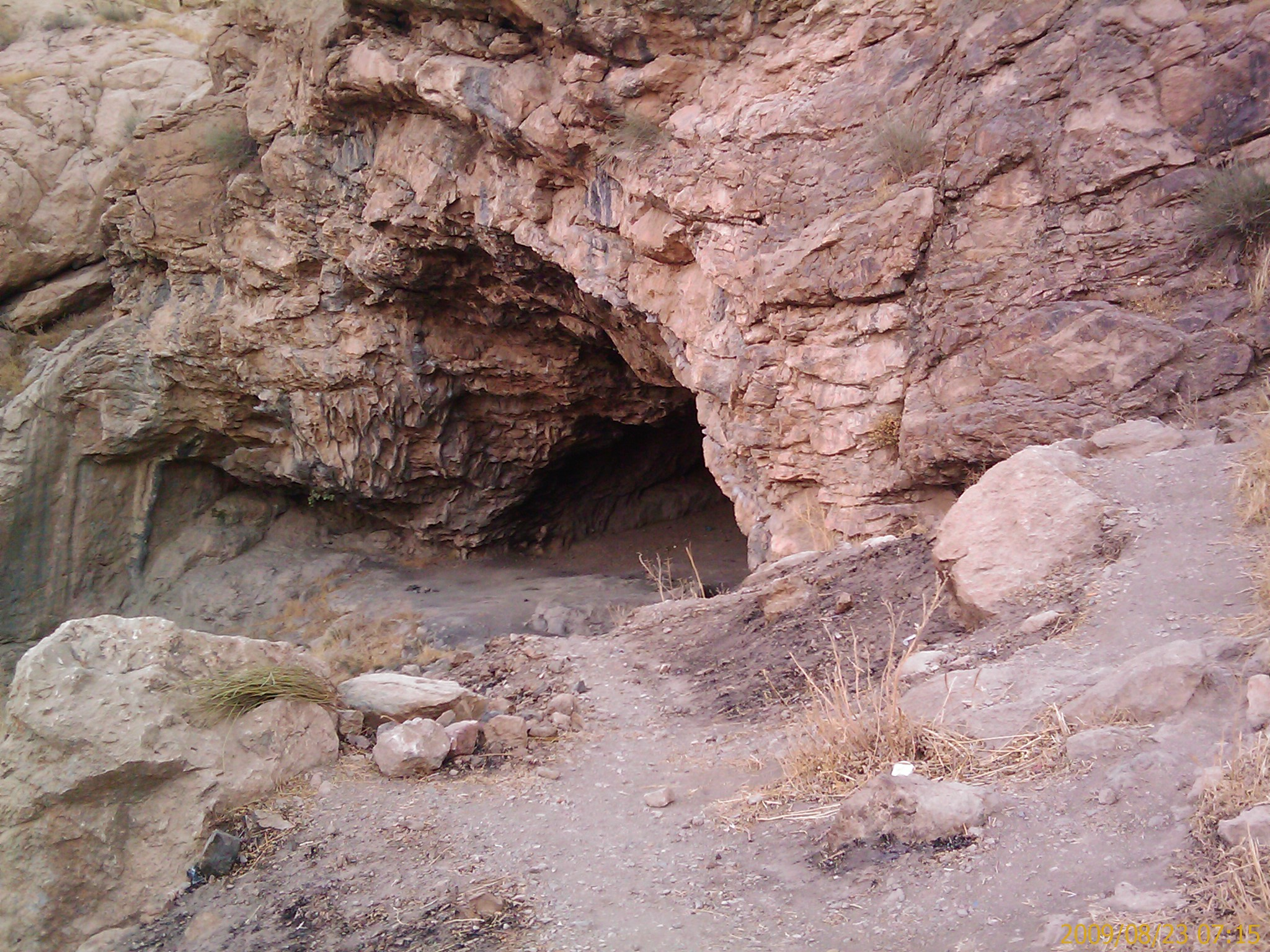 DO Ashkaft cave, in north of kermanshah city, west of iran,Location Neanderthals, small cave.